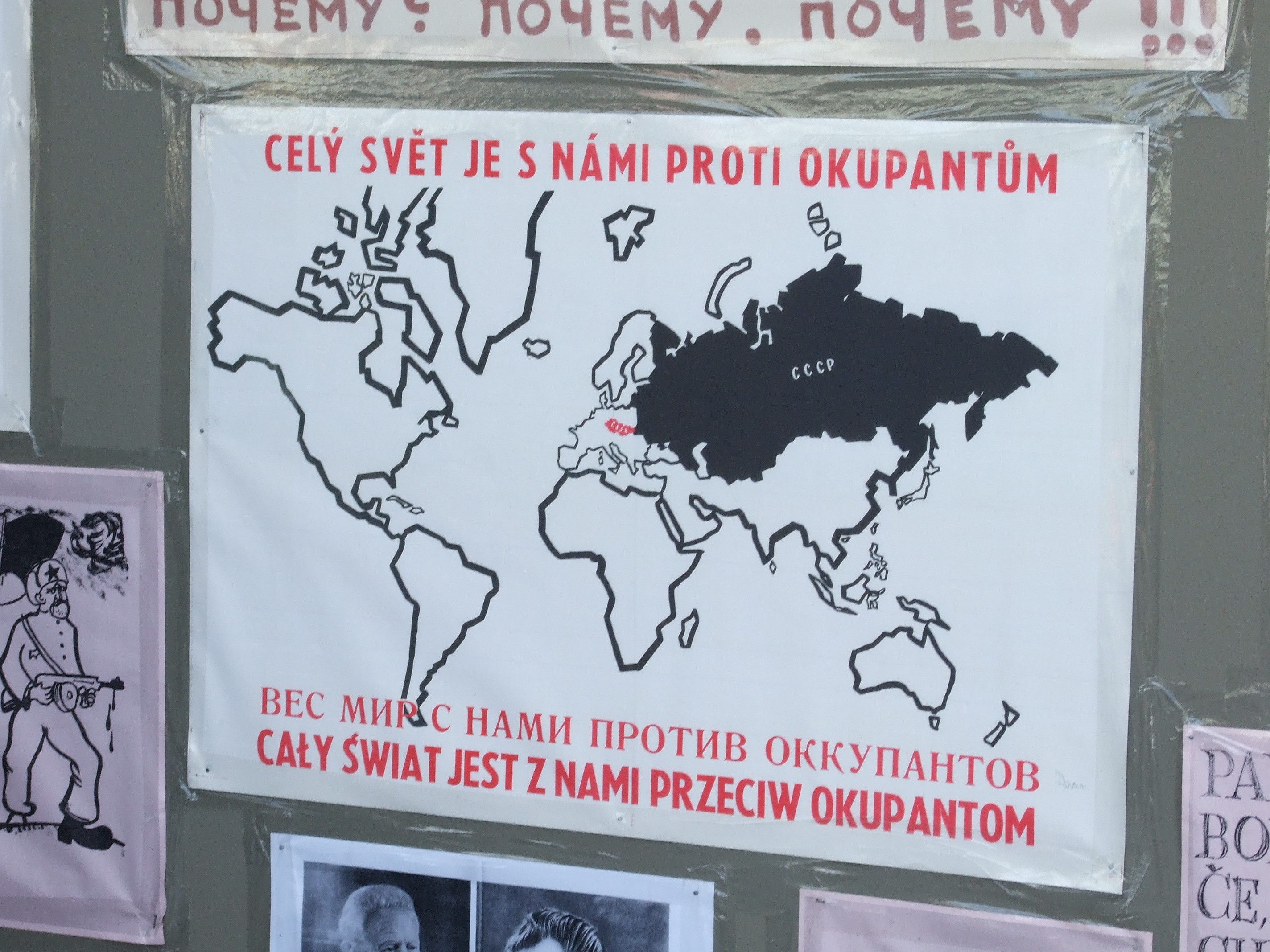 Exhibiton for 40th annivesary of Occupation of Czechoslovakia in Prague. T-54 soviet tank can be seen, cars of 1960's and military trucks were also on display. The text (in Czech, Russian and Polish) translates: The whole World is with us against the occupiershelp